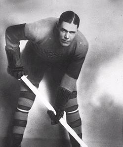 Frank Fredrickson, captain of the Winnipeg Falcons, who represented Canada in ice hockey at the 1920 Olympics, where the team won the gold medal. Fredrickson would later play in the PCHA and NHL, where he won the Stanley Cup. He is pictured while a member of the Victoria Cougars.